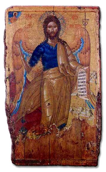 Portable icon St John the Baptist from the Church of Agios Georgios in Sitohori (16th cent), image from the Ecclesiastical Museum, Serres, East Macedonia, Greece